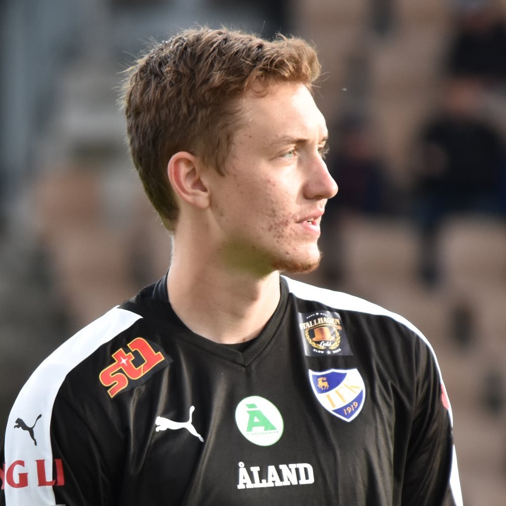 Football Goalkeeper Andreas Vaikla (IFK Mariehamn)